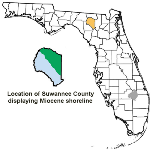 Miocene Suwannee Ciounty, Florida.